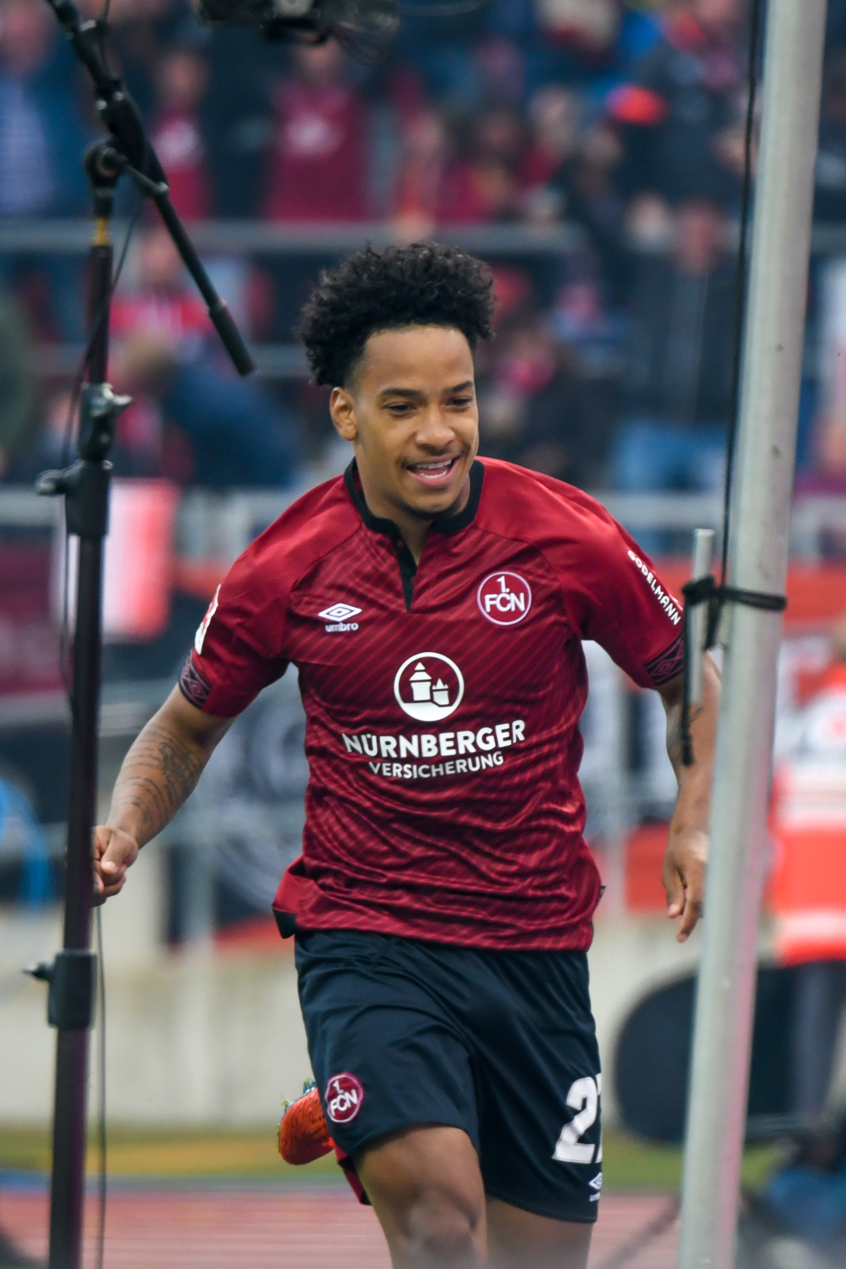 German Soccer League Season 2018/19, 31st match day 1. FC Nürnberg vs. 1. FC Bayern München. Picture shows: Matheus Pereira of Nuremberg.